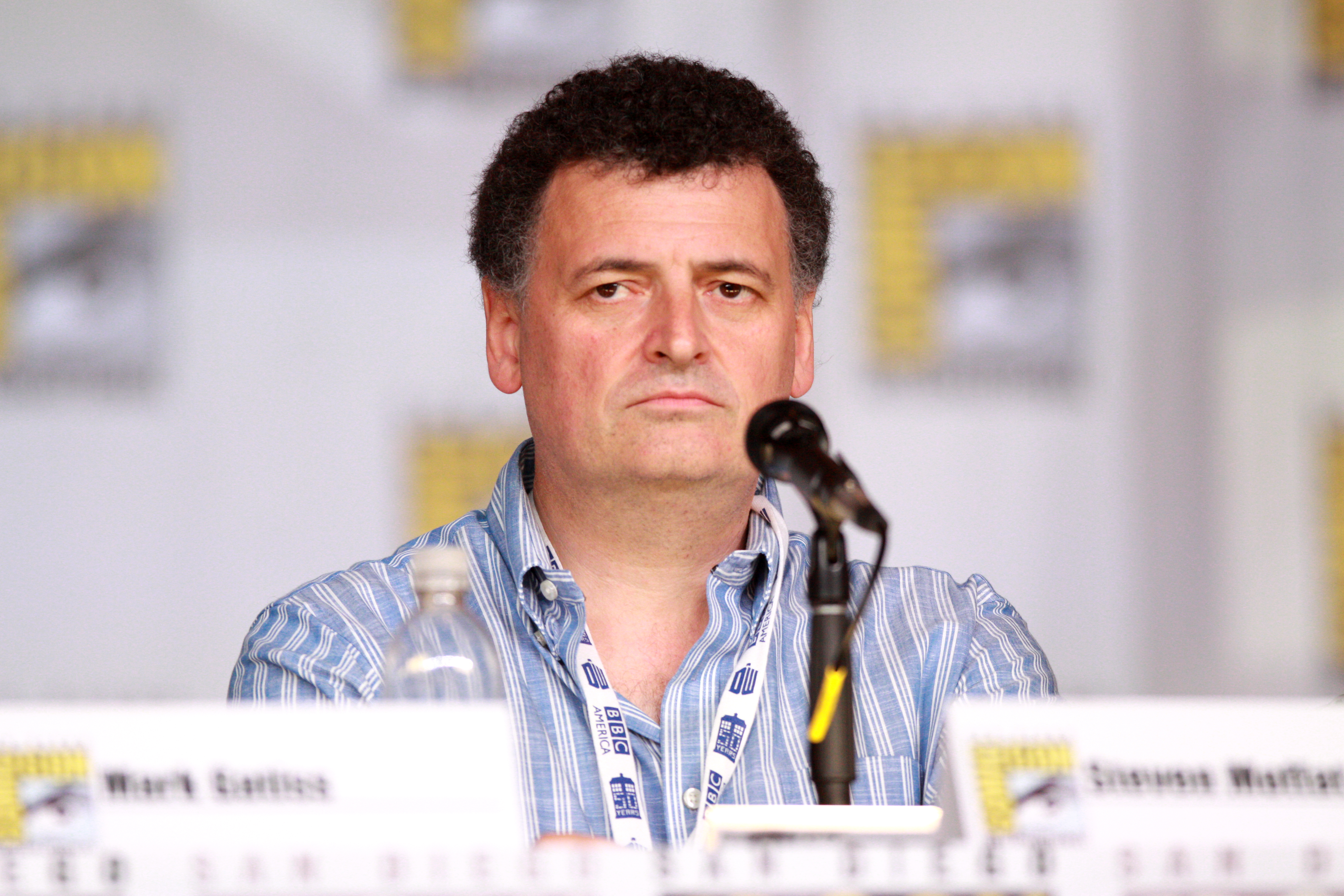 Steven Moffat speaking at the 2013 San Diego Comic Con International, for "Sherlock", at the San Diego Convention Center in San Diego, California.